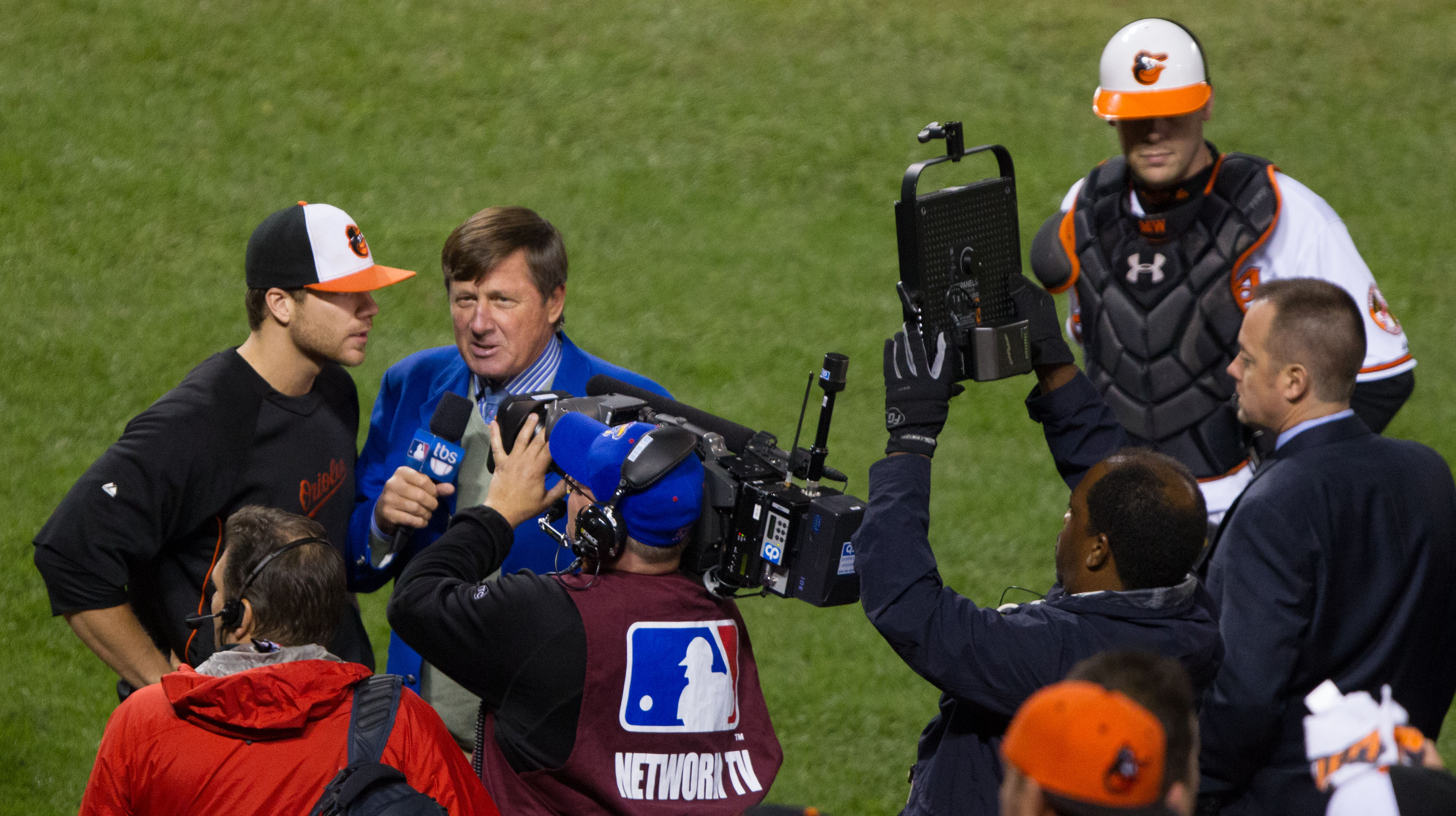 New York Yankees at Baltimore Orioles. ALDS Game 2. October 8, 2012.